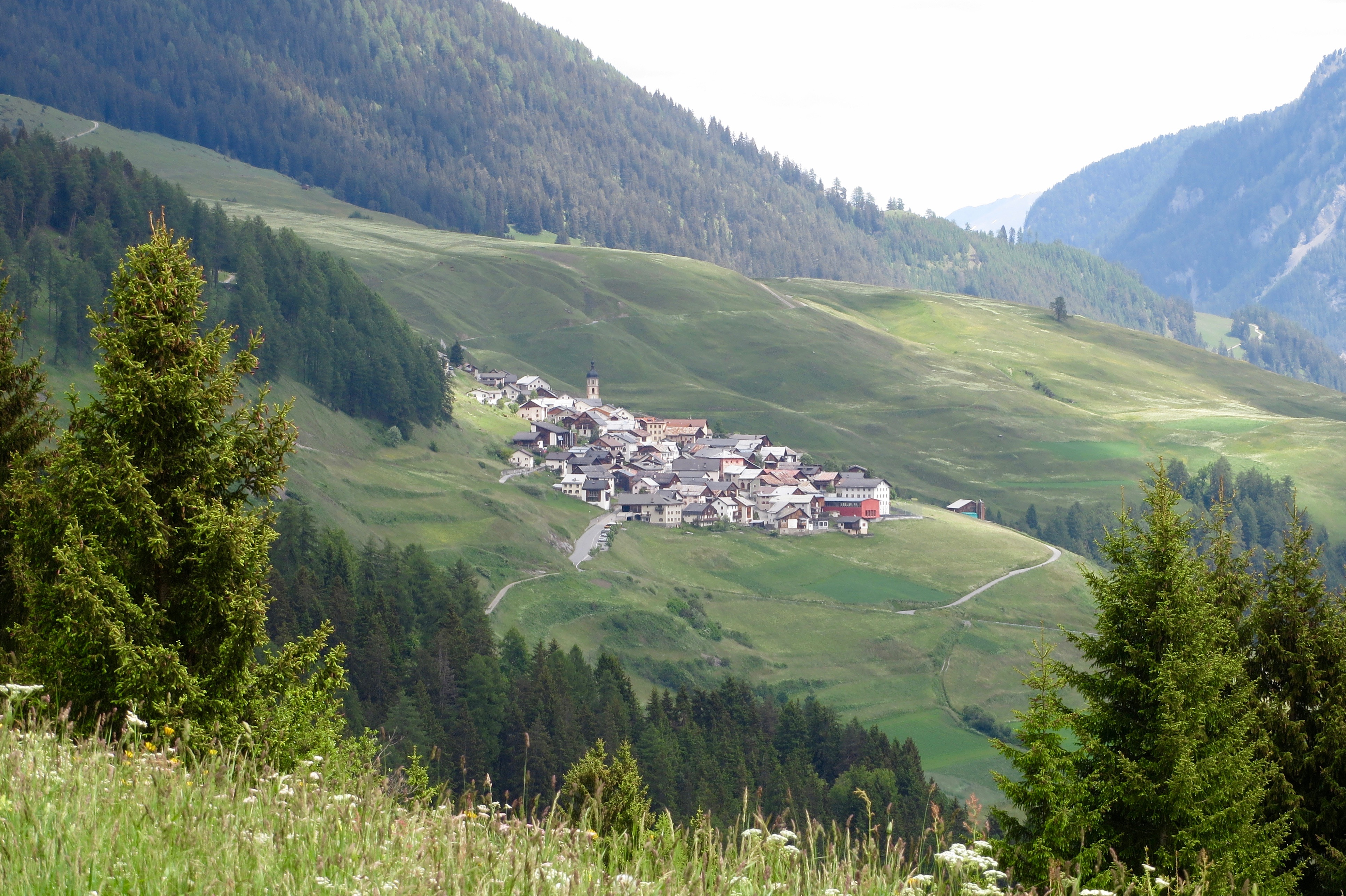 Tschlin, Grisons